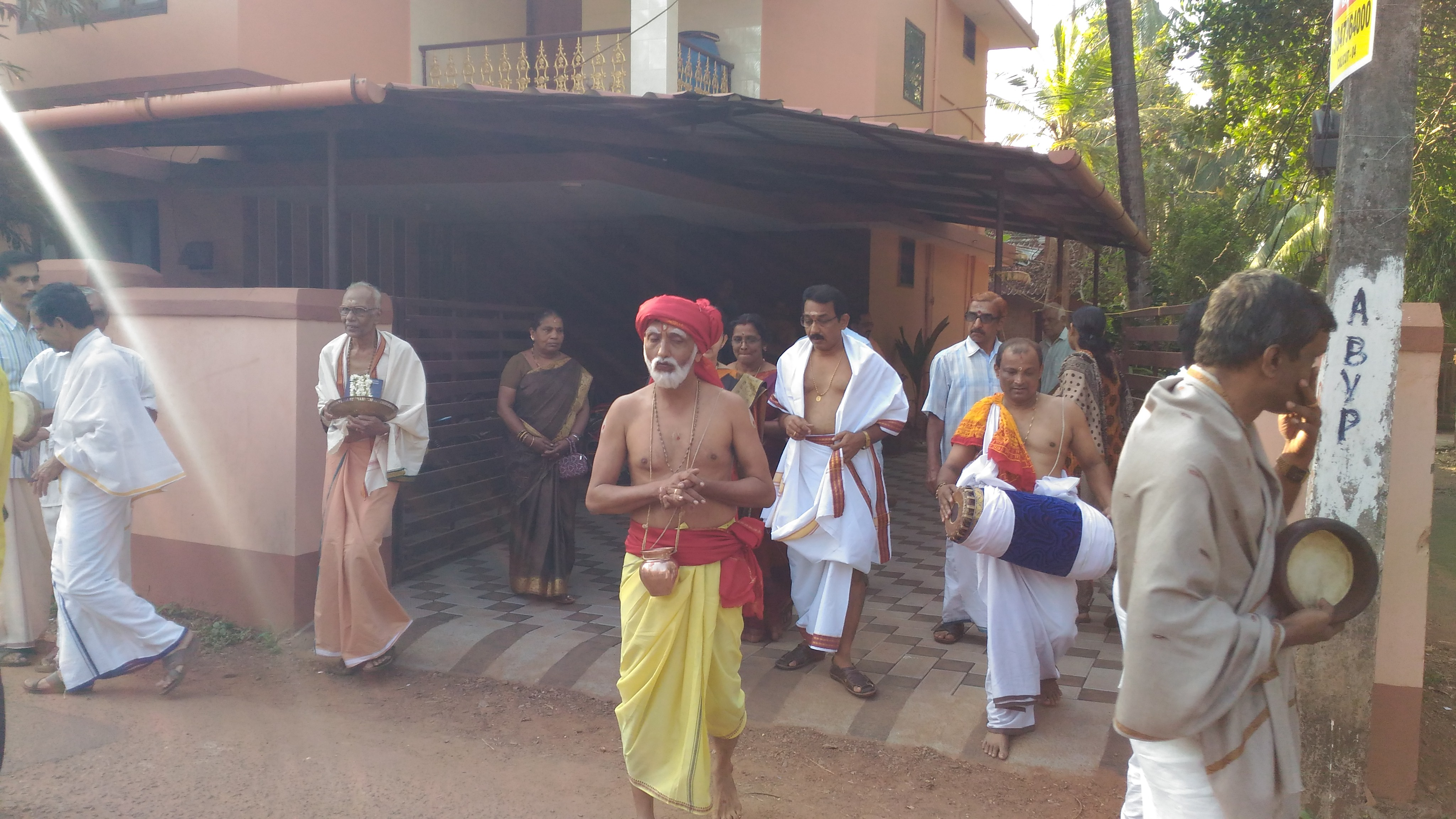 A group of musicians taking part in the Uncha Vruthi at Kanahngad on 16th Feb 2017 in connection with the Thyagaraja-Purntharadasa Sangeetholsavam